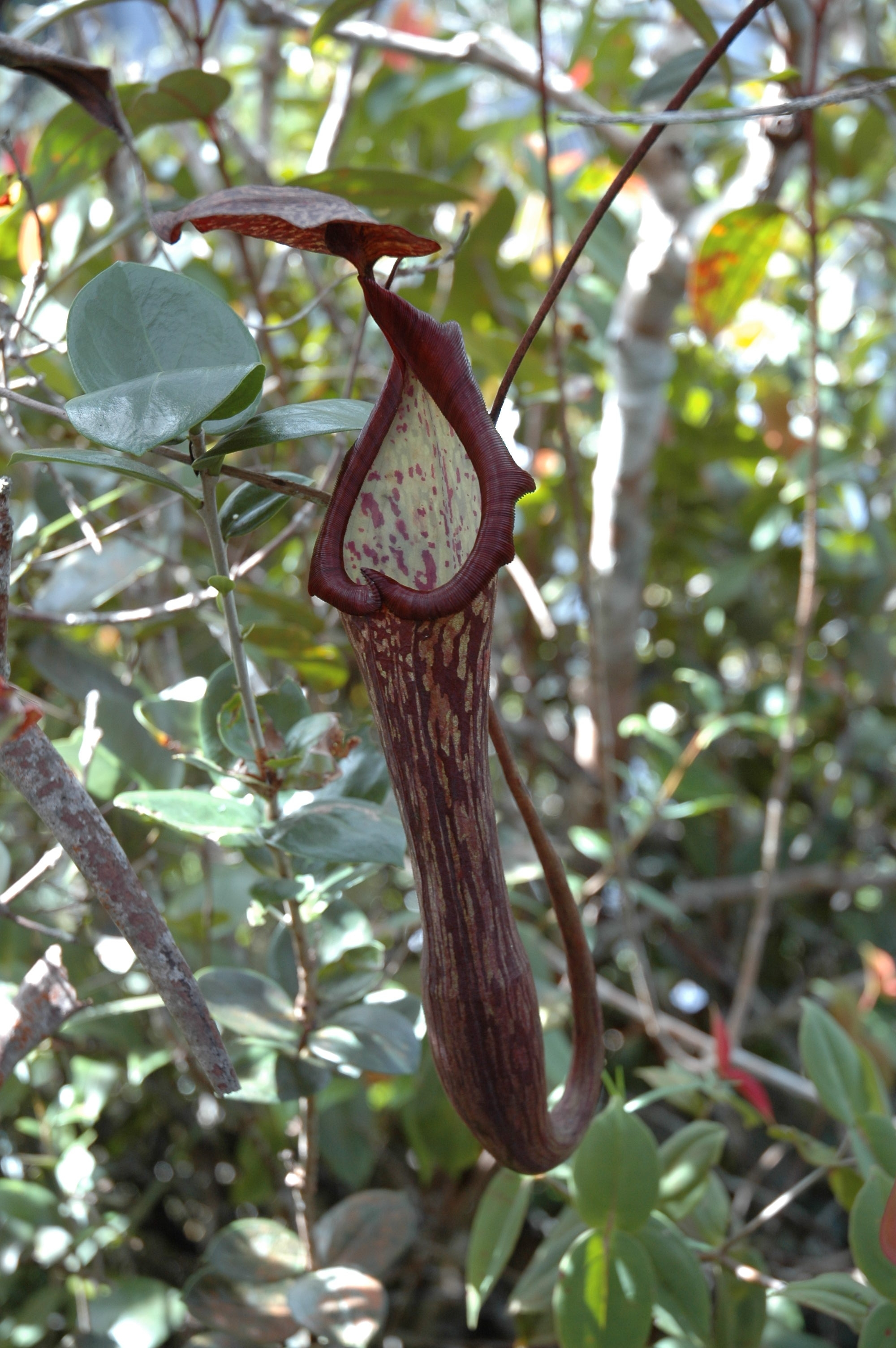 Nepenthes faizaliana Gunung Mulu Pinnacles by Jeremiah Harris